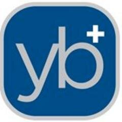 The logo for the American Technology firm Yottabyte LLC